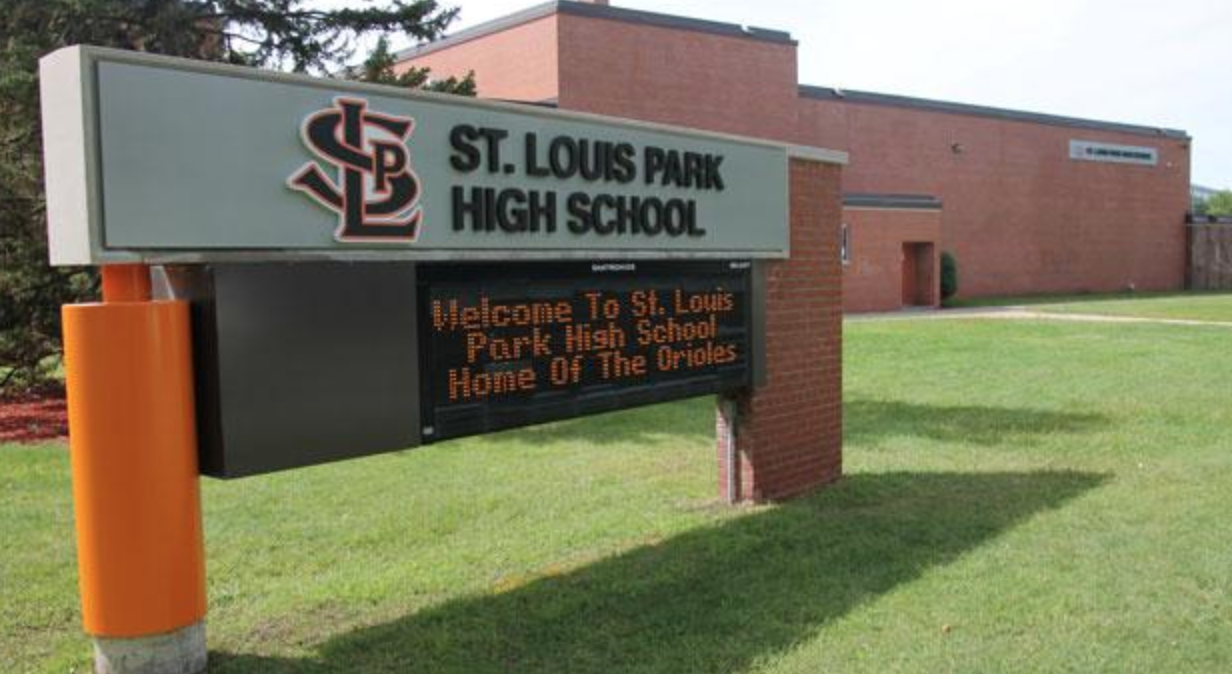 This is a photo of the St. Louis Park's welcome sign with the school in the background.